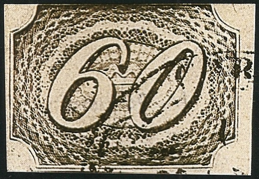 Brazil second postage stamp series, nicknamed "Inclinados" ("inclined") (1844). 60 réis. Museu Paulista collection, São Paulo, Brazil.